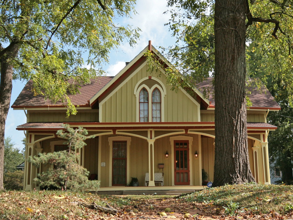 Langdon House in Cincinnati, OH. Photo by Greg Hume